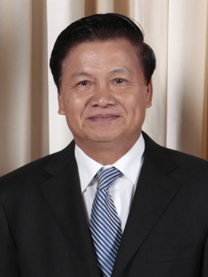 President Barack Obama and First Lady Michelle Obama pose for a photo during a reception at the Metropolitan Museum in New York with Thongloun Sisoulith.